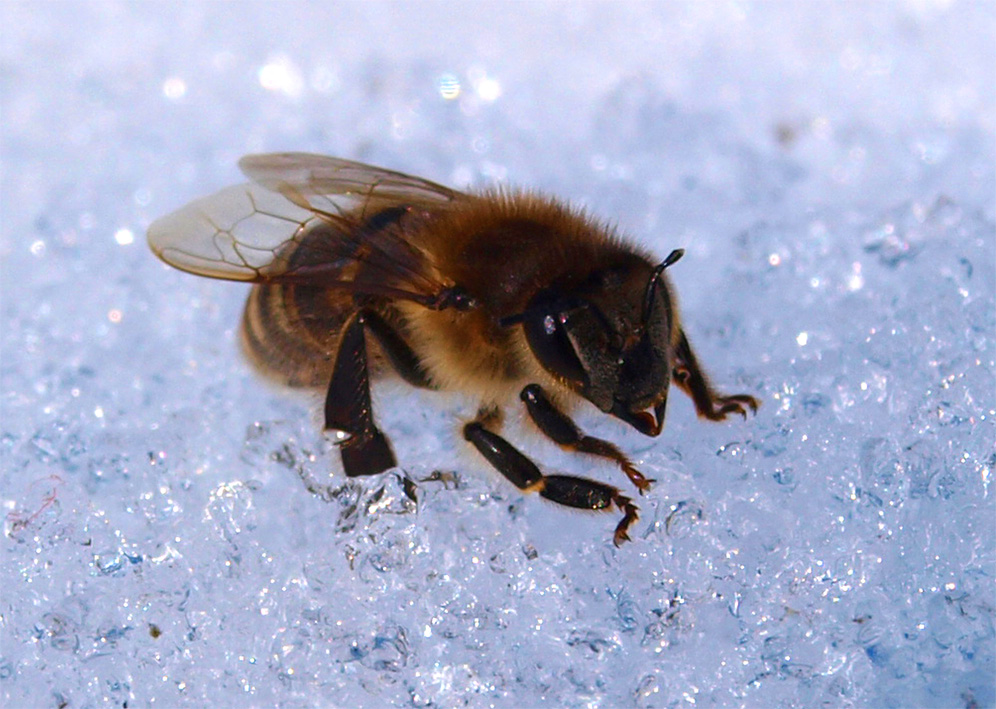 Overflight of bee in the early spring